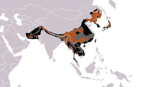 Asian Black Bear (Ursus thibetanus) range (brown - extant, black - extinct, dark grey - presence uncertain)